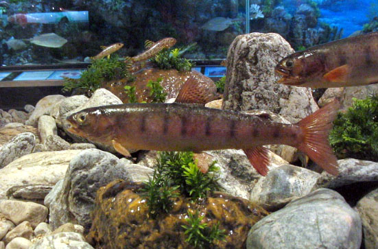 A lenok of the species Brachymystax lenok in the British Museum of Natural History